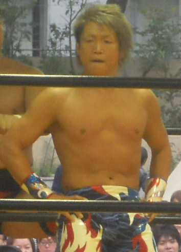 Japanese professional wrestler, Ikuto Hidaka. Oct 2 2011 ZERO1 Yasukuni Shrine.